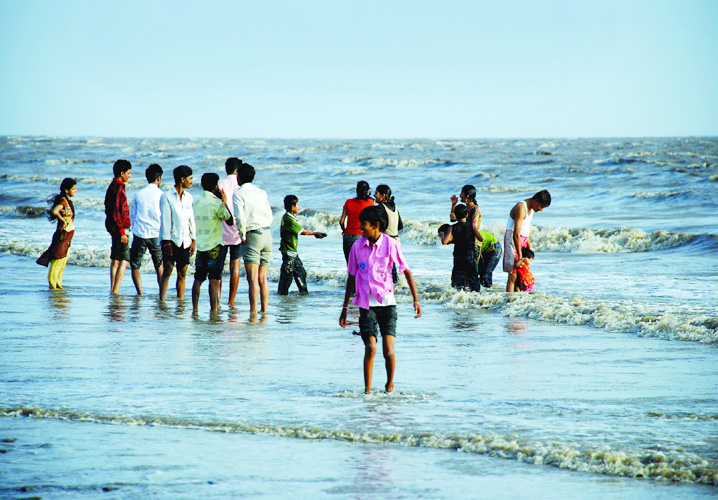 Dumas beach waves